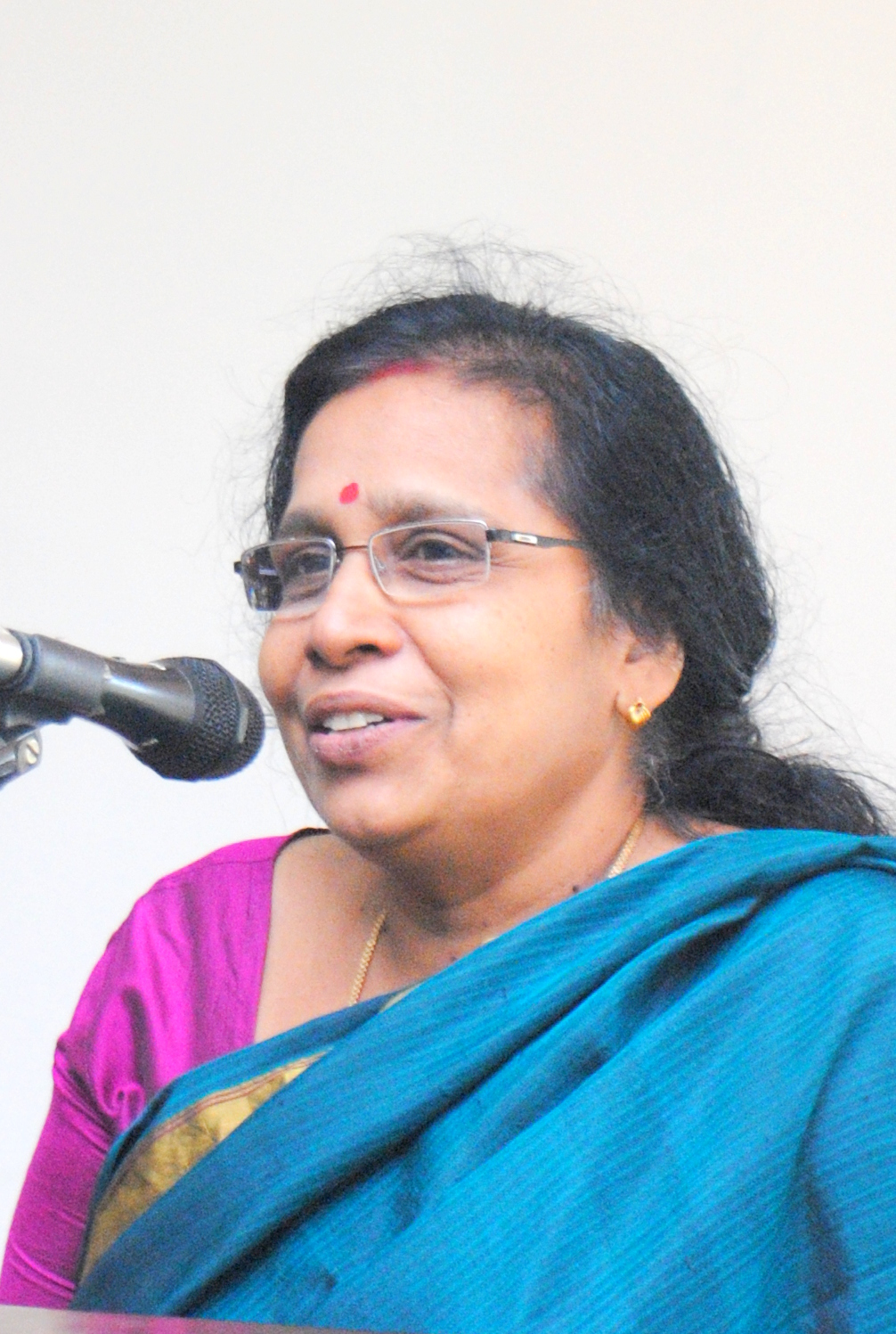 V.P.Seemandini at International Women's Day Celebration